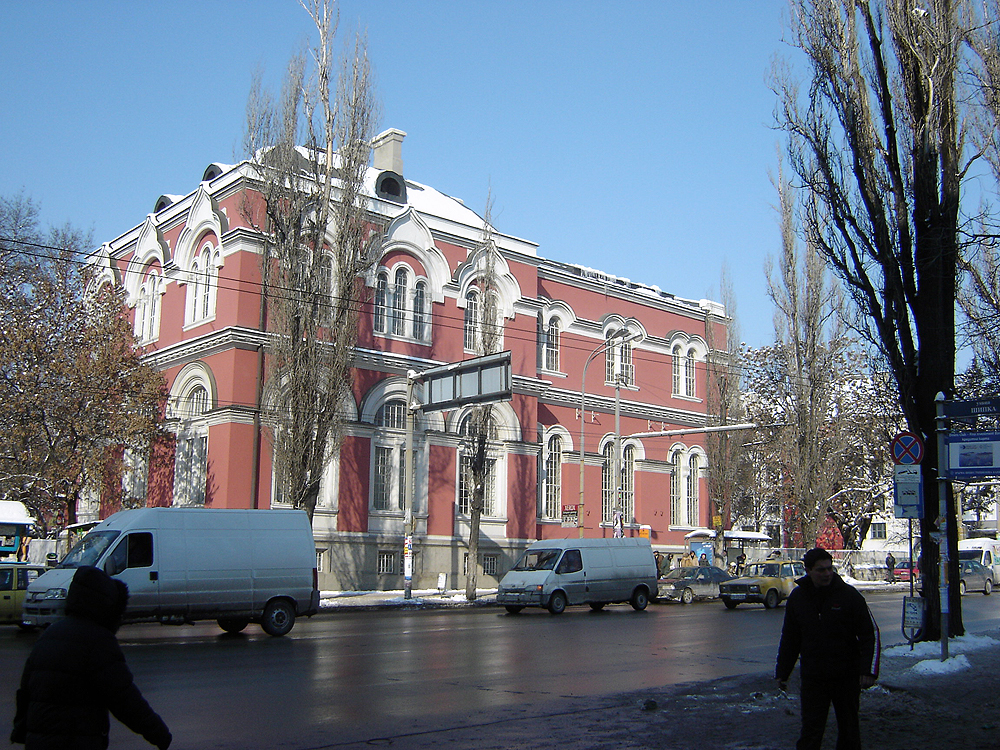 National Academy of Arts, Sofia, Bulgaria